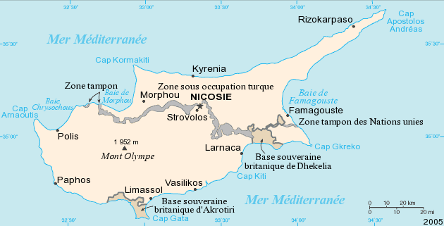 Cyprus Map